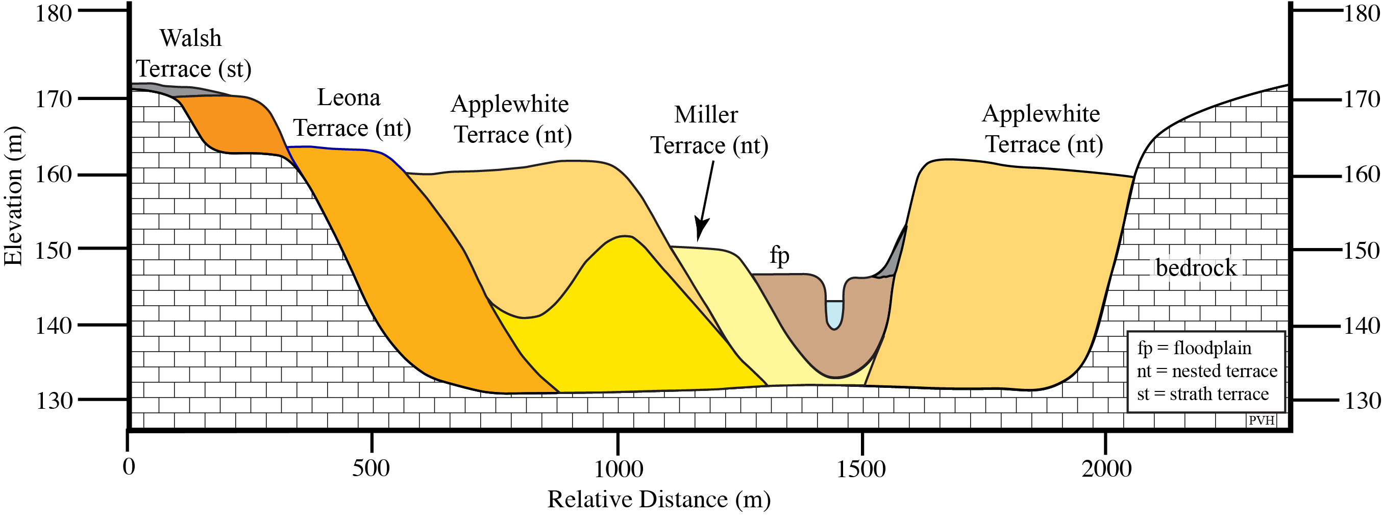 Cross-section of the Medina River at the Richard Beene Site (4IBX831), Bexar County, Texas, that illustrates the general structure of nested terraces within a river valley. Figure created using data from: Thoms, A.V. and R.D. Mandel, eds., 2007. Archaeological and Paleoecological Investigations at the Richard Beene Site, South-Central Texas. Reports of Investigation No. 8, Center for Ecological Archaeology, Texas A&M University, College Station.